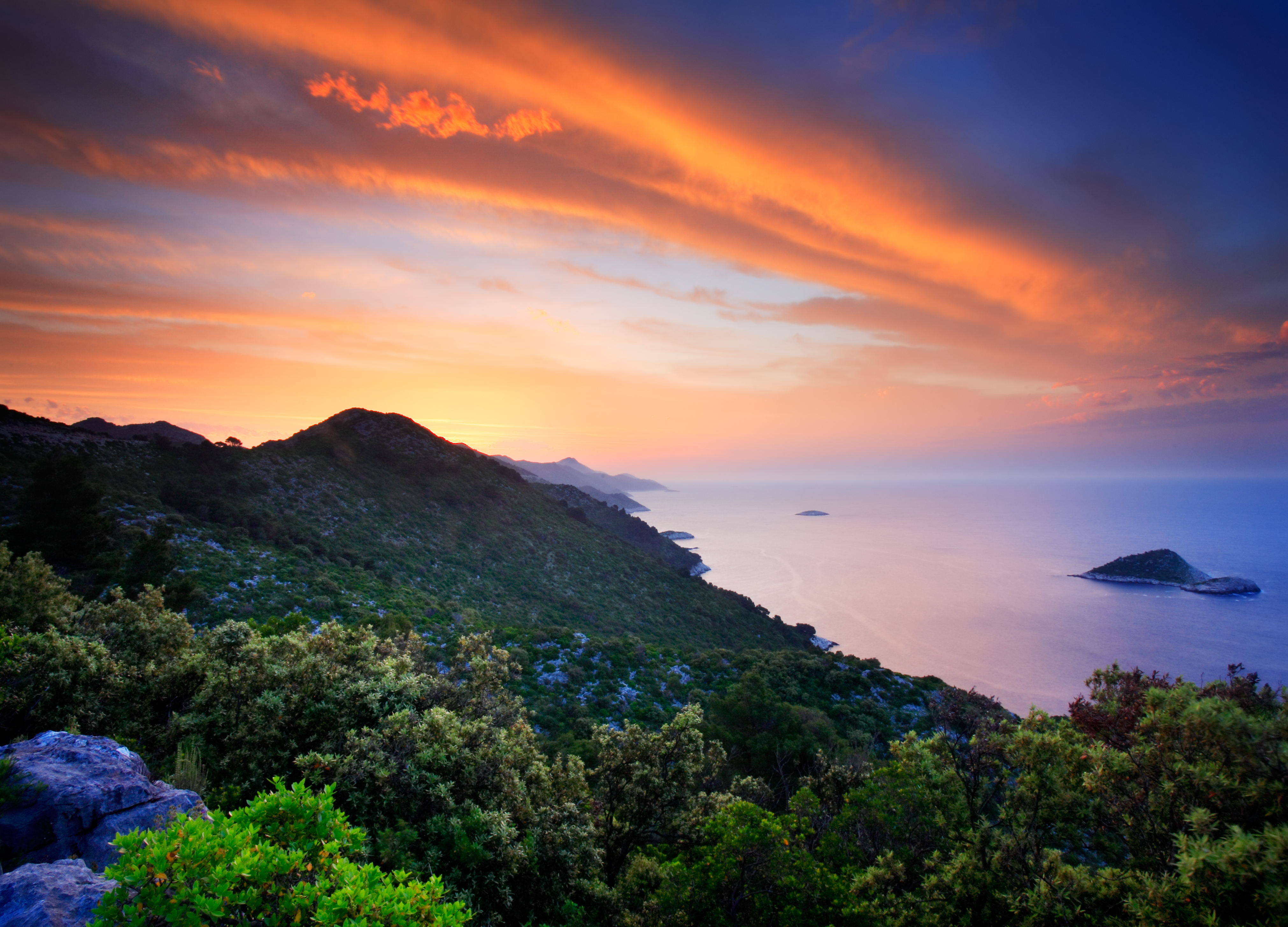 Sunset on the island of Mljet, Croatia